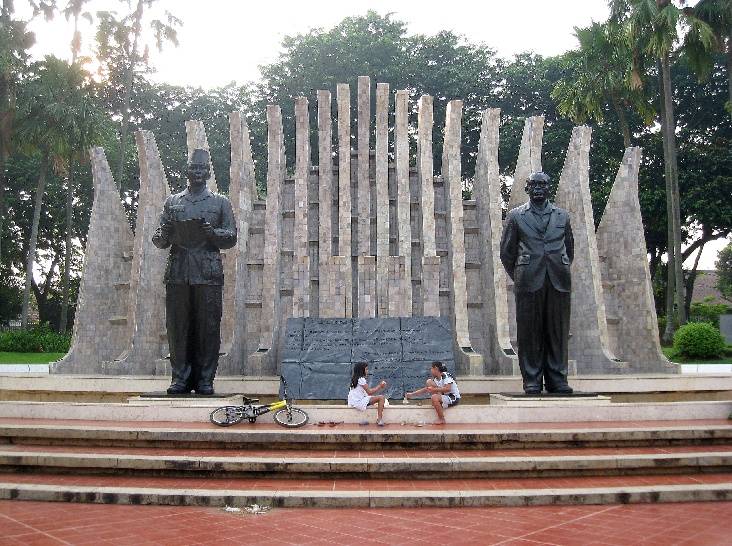 Proclamation monument in Jalan Proklamasi, Central Jakarta. The monument was constructed on the site of Indonesian Proclamation (declaration) of Independence in 17 August 1945. The monument featuring the statue of Indonesian first president Soekarno reading the Indonesian Proclamation of Independence with vice president Mohammad Hatta.